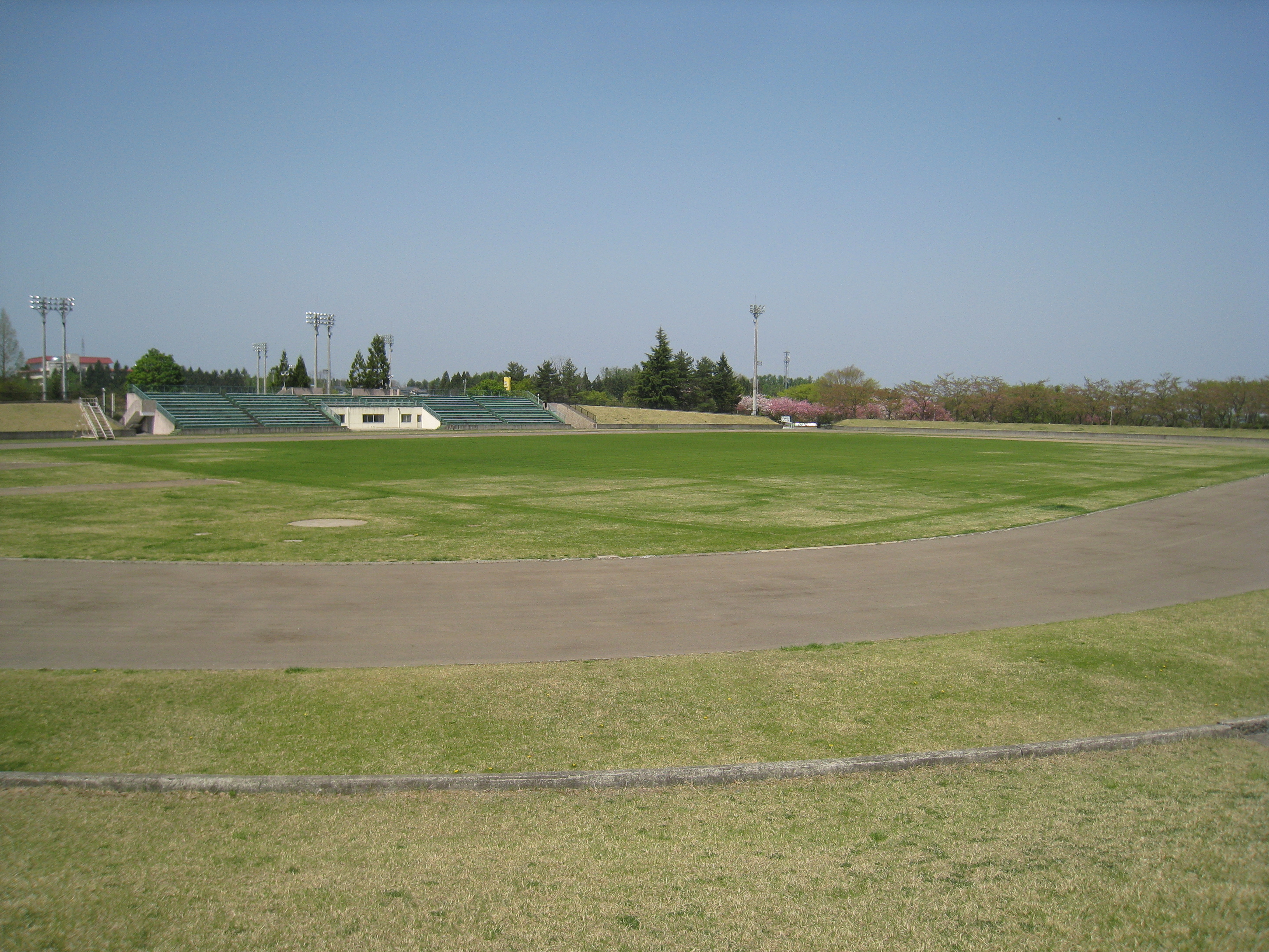 Gonohe Hibarino Stadium